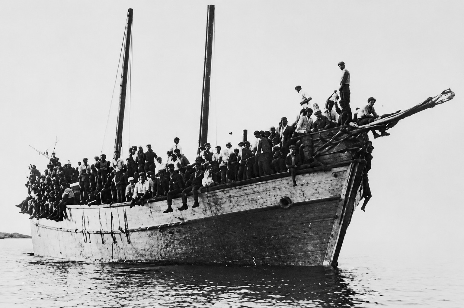 Immigration to Israel